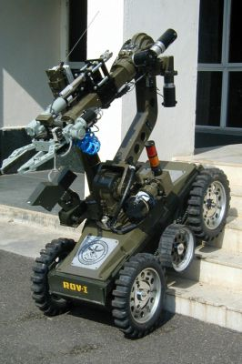 Picture of Daksh